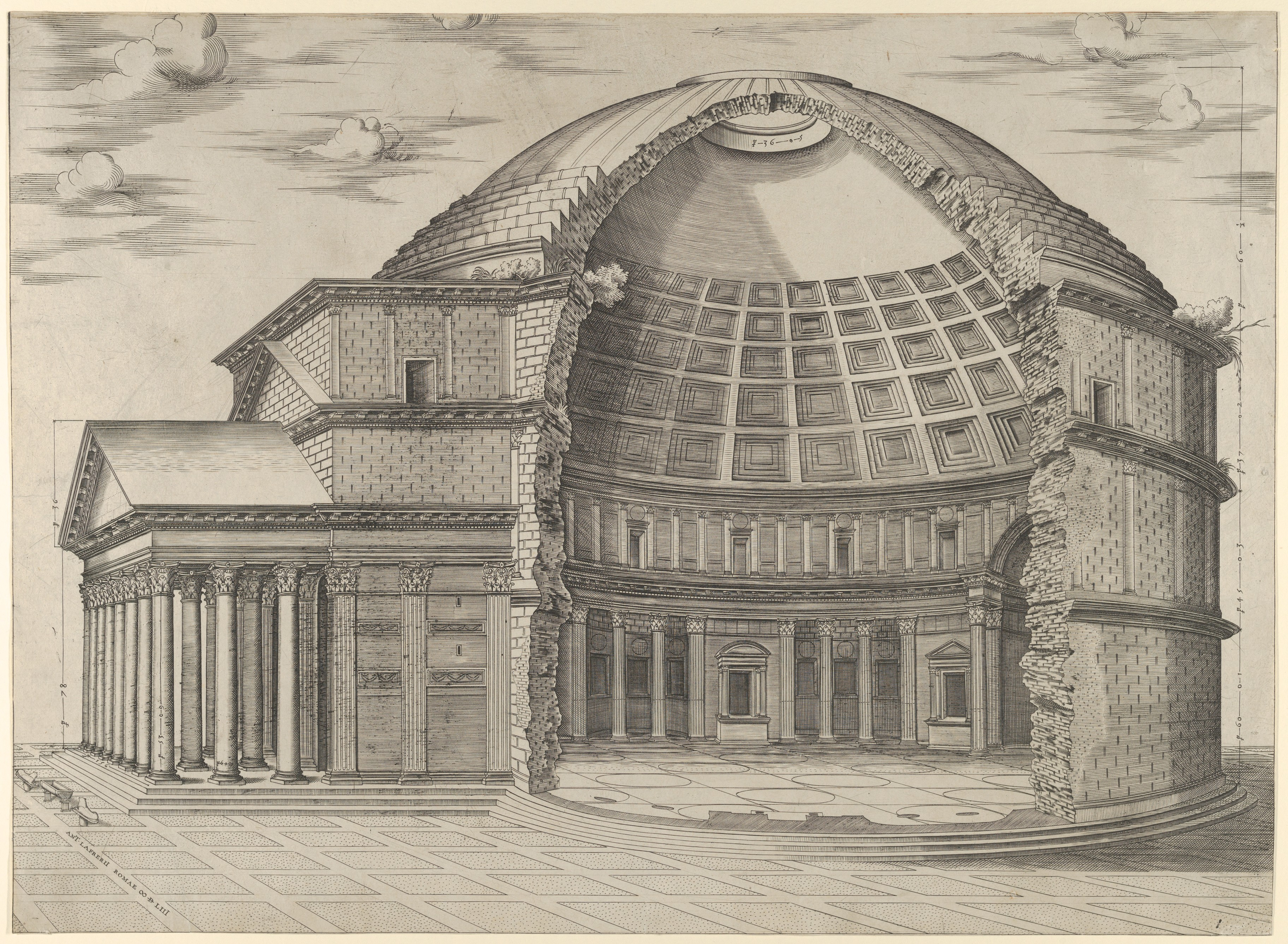 Print; Prints